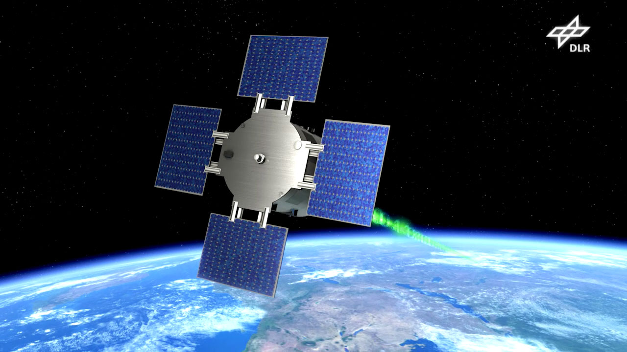 Render of the Eu:CROPIS satellite developed by the German Aerospace Center (DLR)